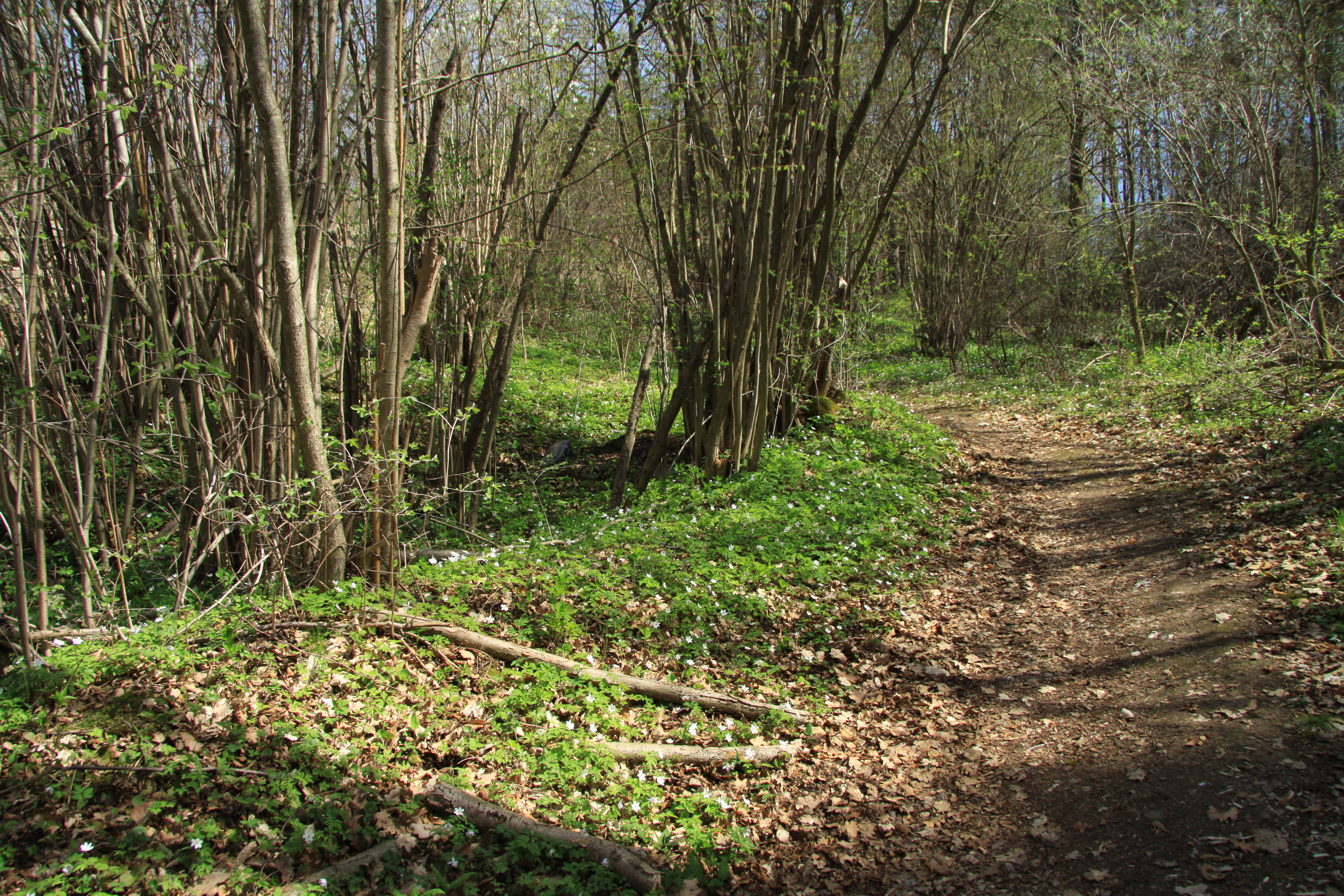 National nature reserve Vyšenské kopce in Český Krumlov District, Czech Republic Project: Chráněná území